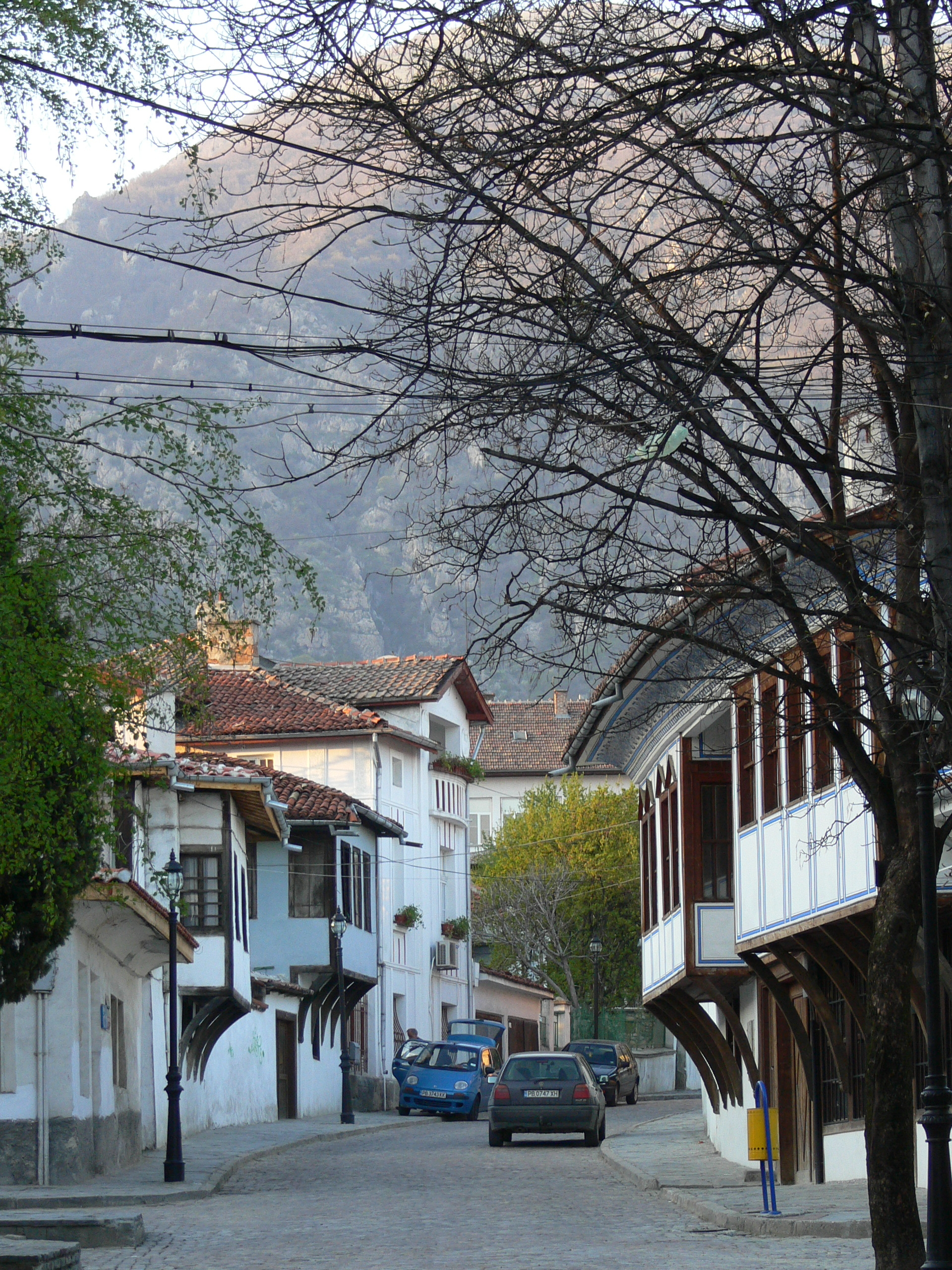 Street "Vasil Levski" in Karlovo, Bulgaria